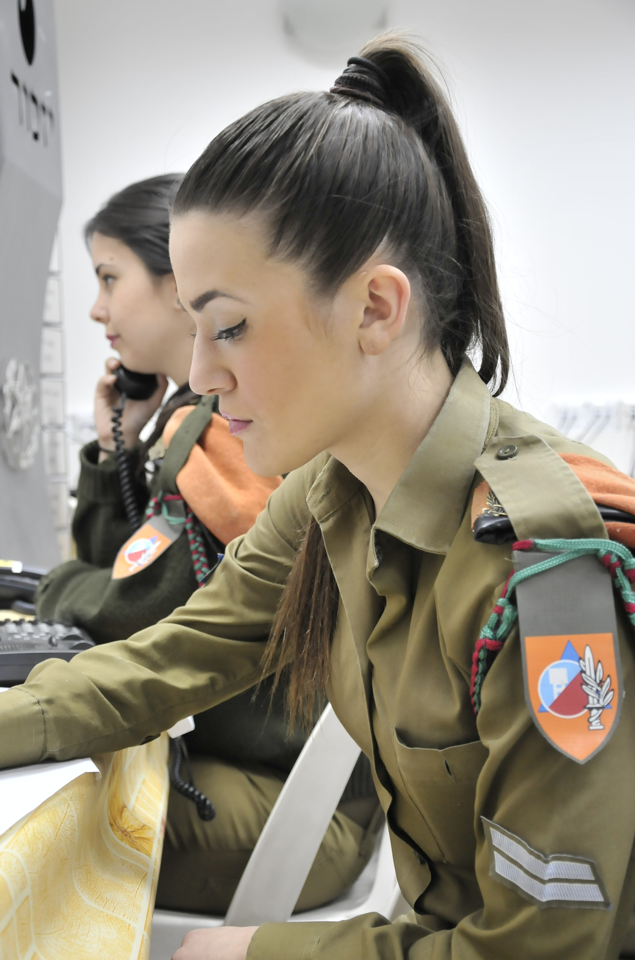 Terrorists in the Gaza Strip have fired more than 300 rockets since this Friday, striking major population centers in southern Israel. More than one million Israelis are under the threat of rocket fire. Combat soldiers and emergency instructors of the Home Front Command spread throughout the country, explaining citizens how to act in case of rocket attacks. Pictured above are the soldiers of the Home Front Command, helping out in the emergency call room of the Israeli Police.